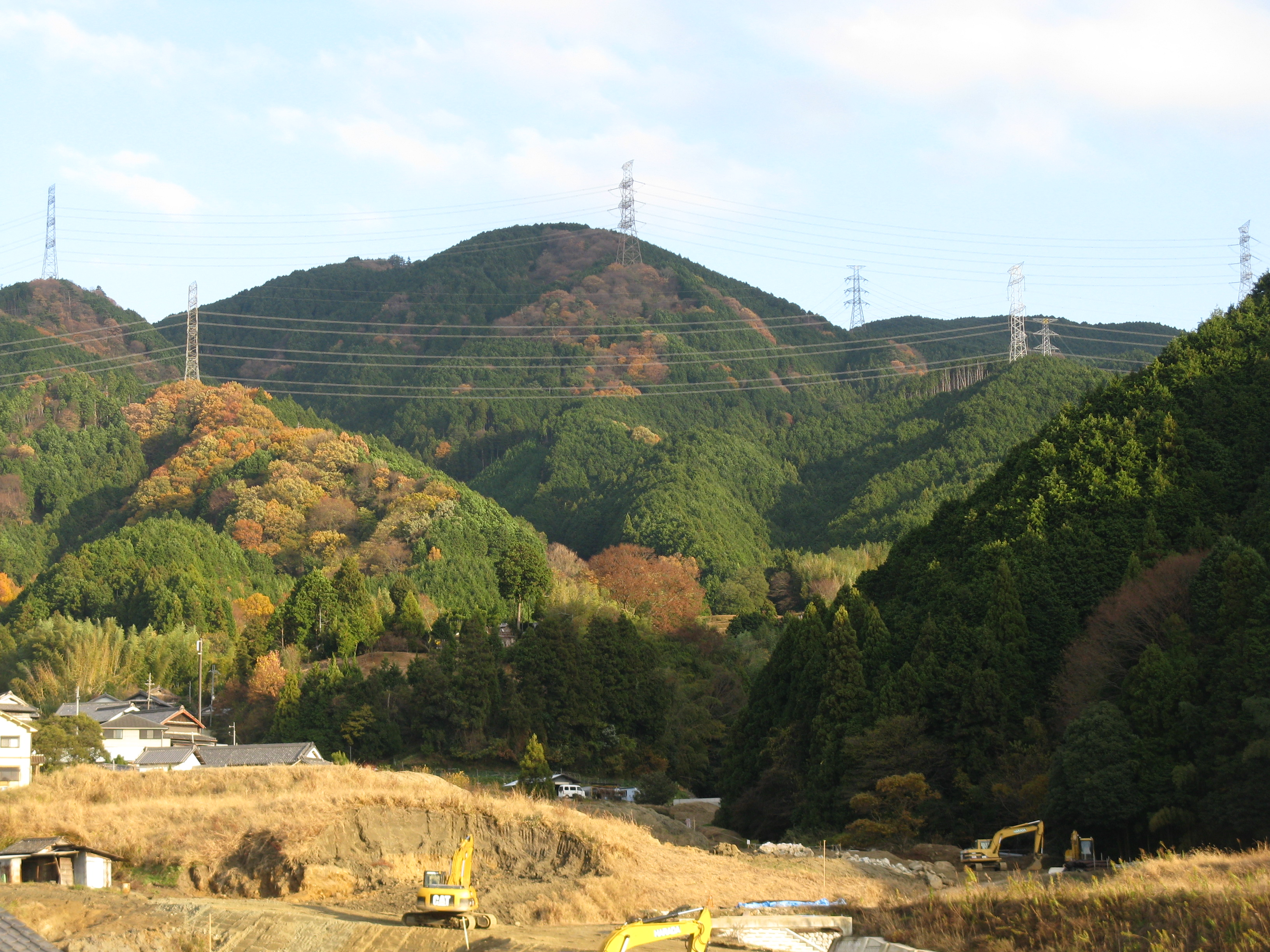 Mount Iwahashi as seen from the west.